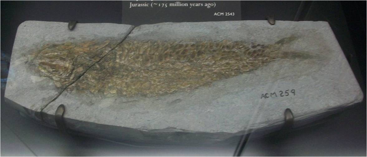 Fossil of the pachycormiform Dorsetichthys bechei from Lyme Regis, England at the Amherst Museum of Natural History.